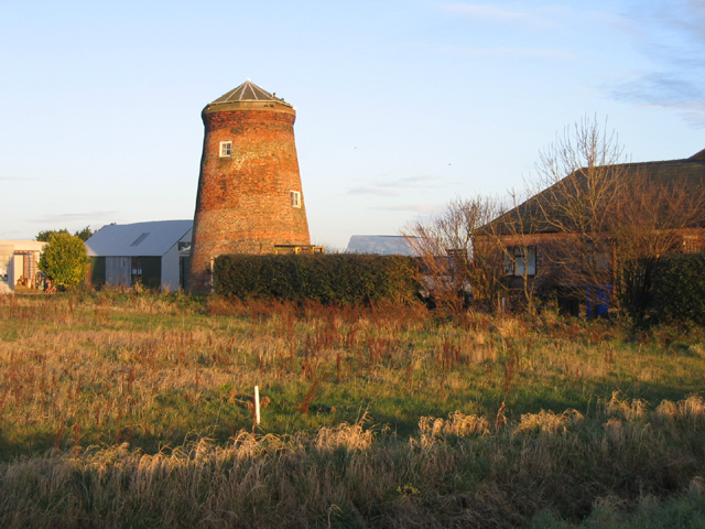 North End Mill, Swineshead, Lincolnshire.